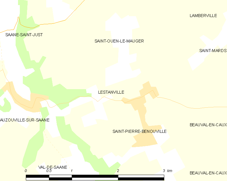 Map of French municipality Lestanville